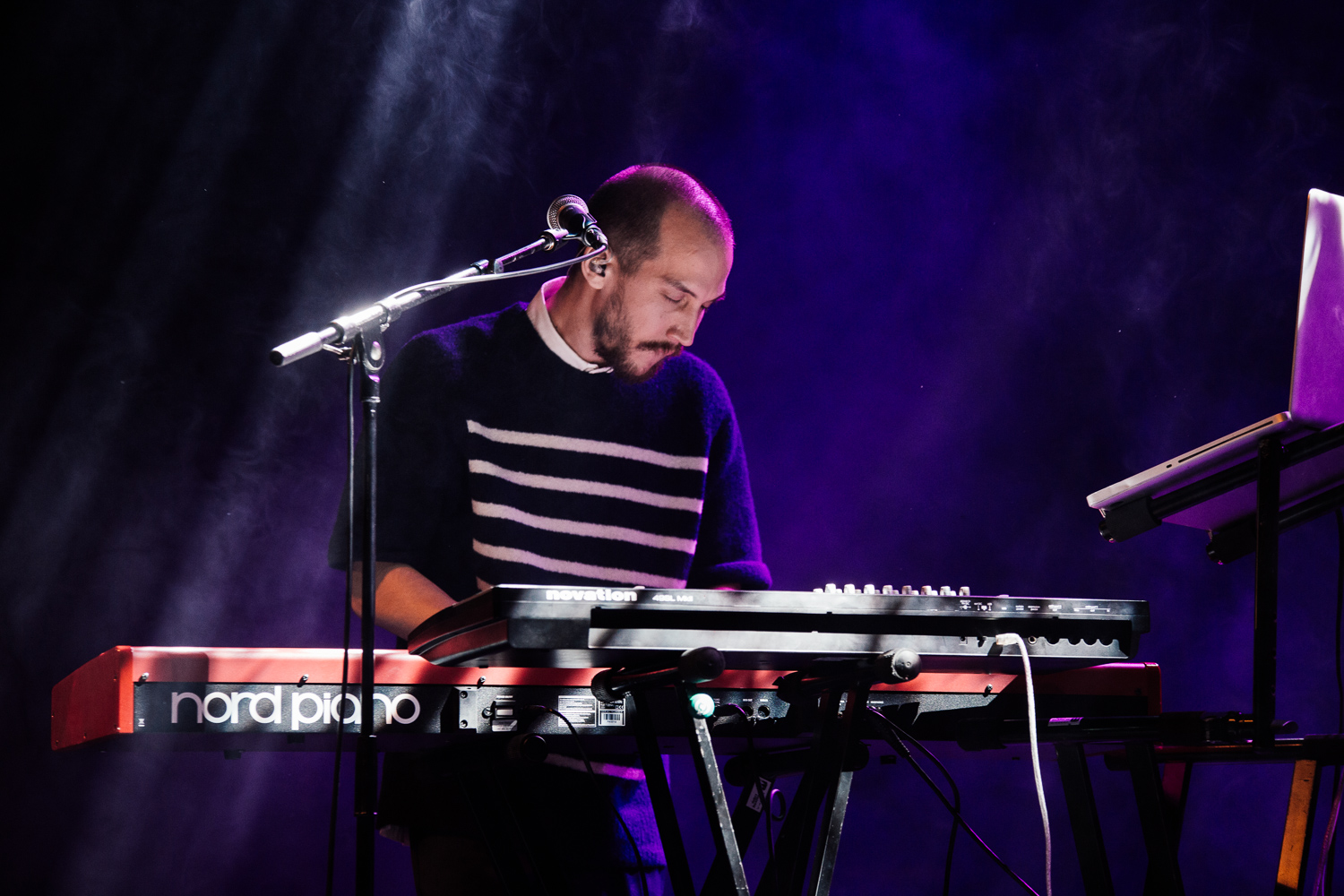 Madden performing at by:Larm 2017